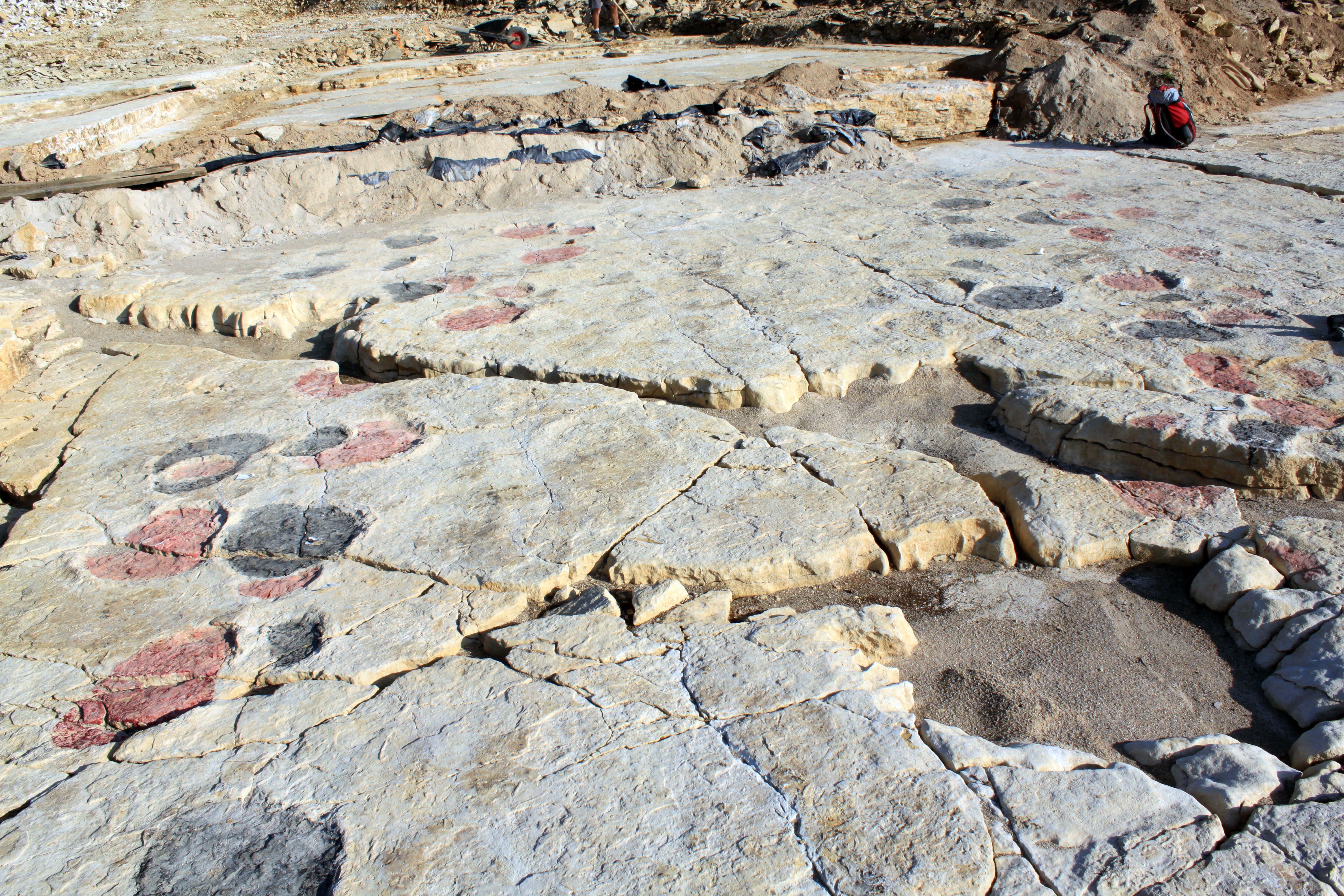 Parabrontopodus Dinosaur tracks found along a highway construction site. and